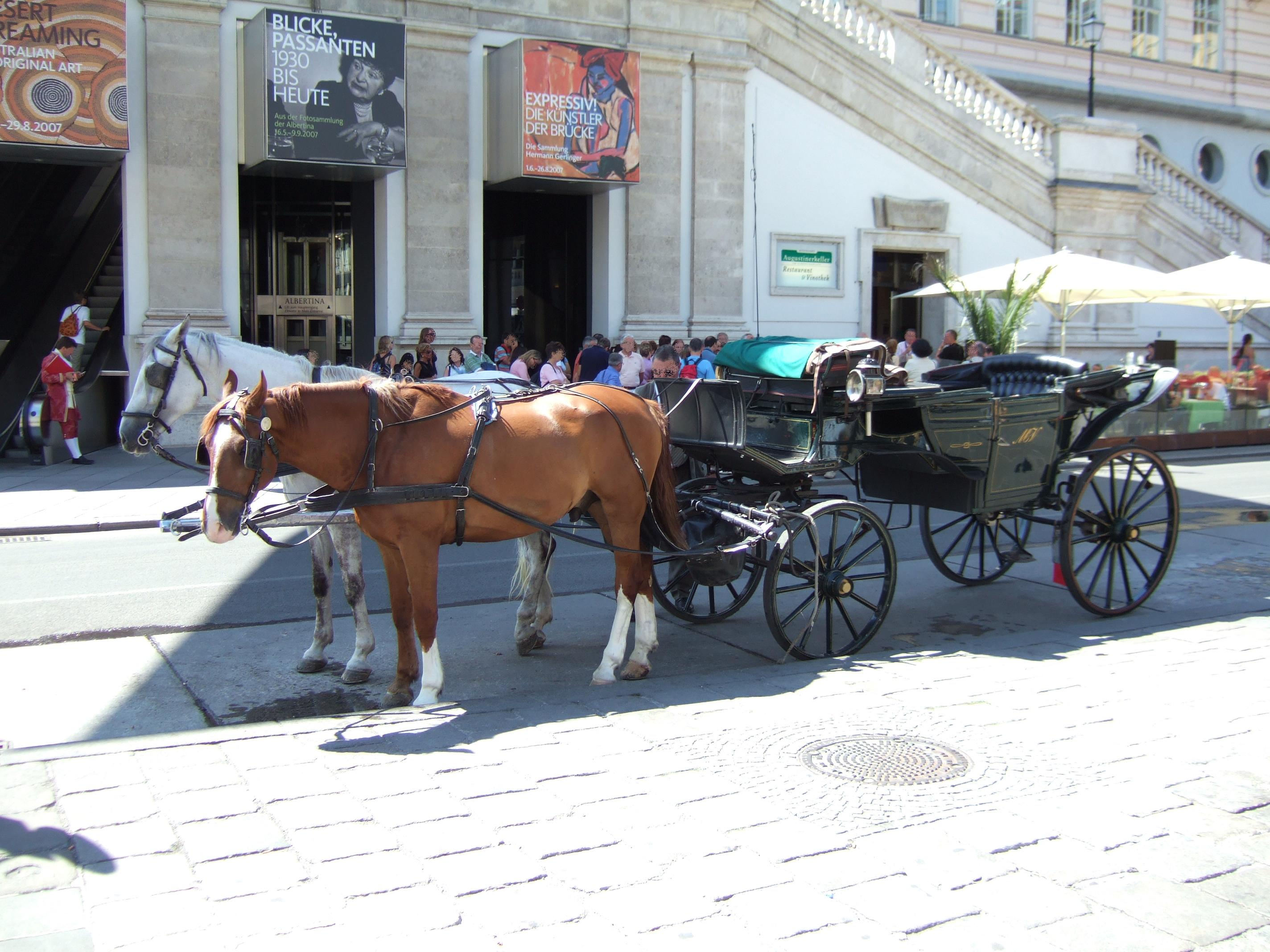 Fiaker